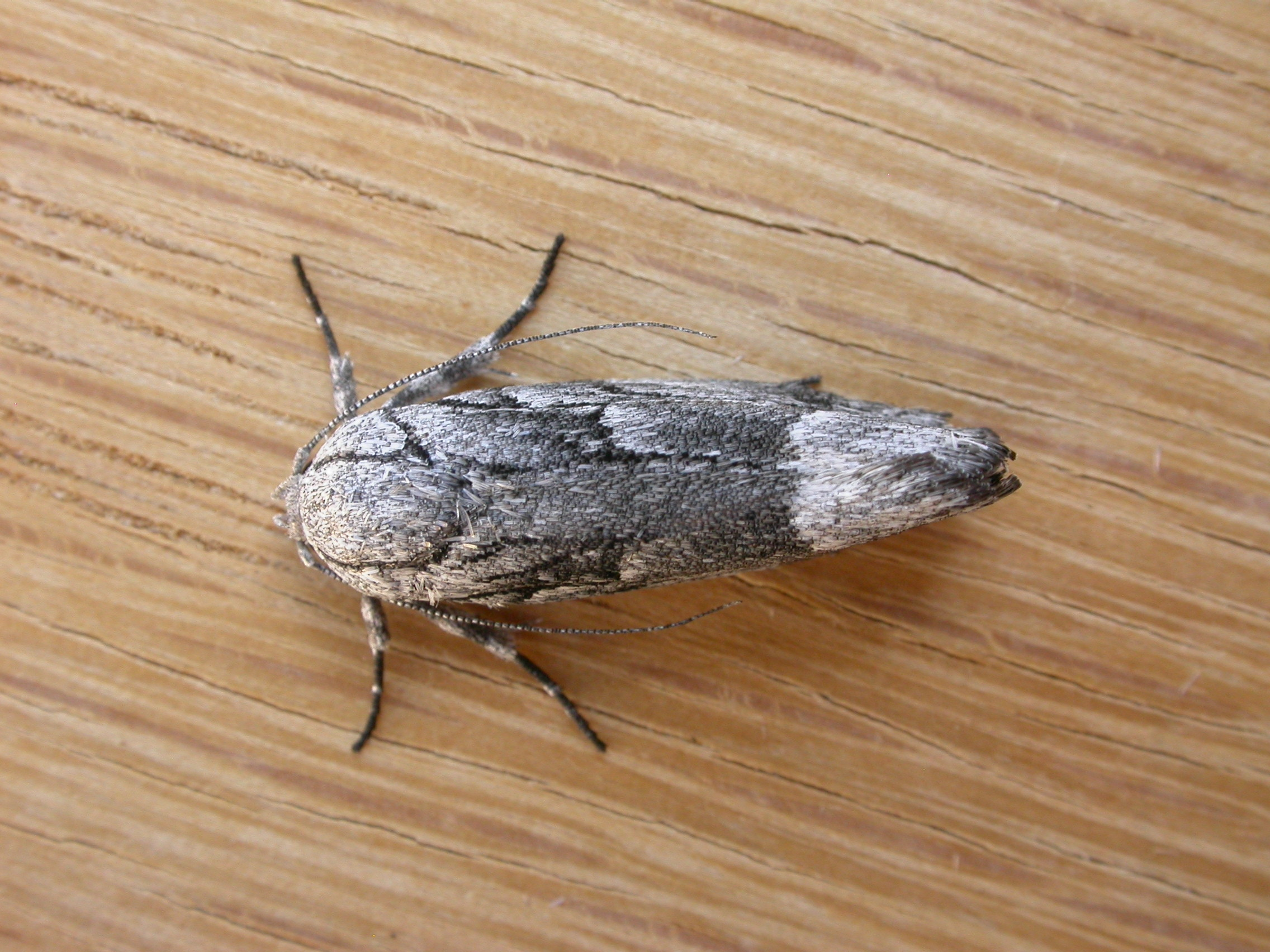 Undescribed Illidgea sp., to MV light, Aranda, ACT, 28/29 December 2008